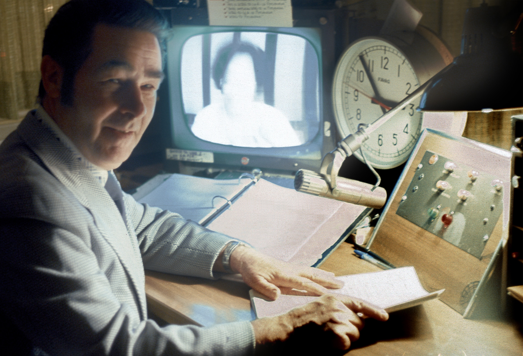 Pittsburgh television legend Paul Shannon in announcer booth at WTAE-TV, March 1975. Photo by Bruce Graham.